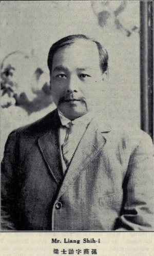 Liang Shiyi, Yansun (1869 - 1933)